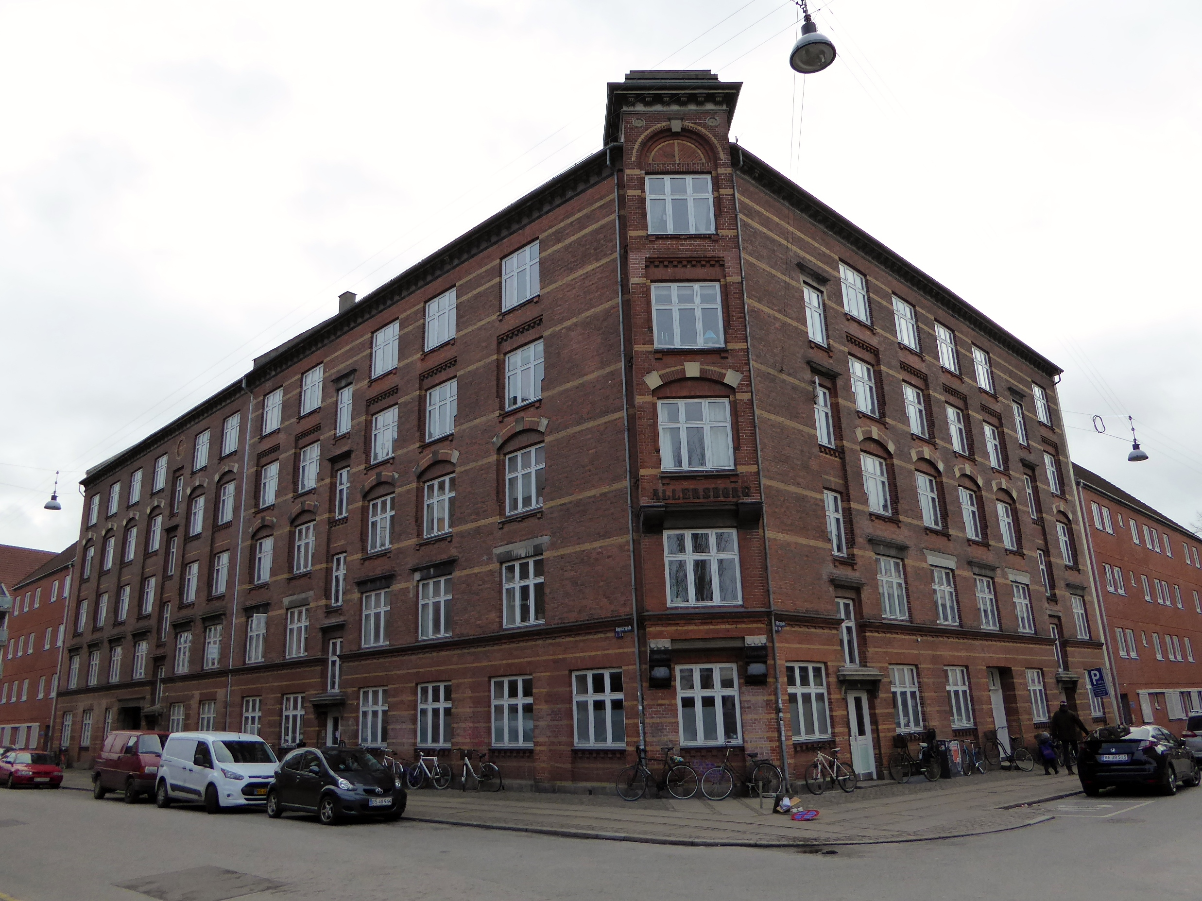 The apartment building Allersborg at the corner of Dagmarsgade and Allersgade in Nørrebro in Copenhagen.